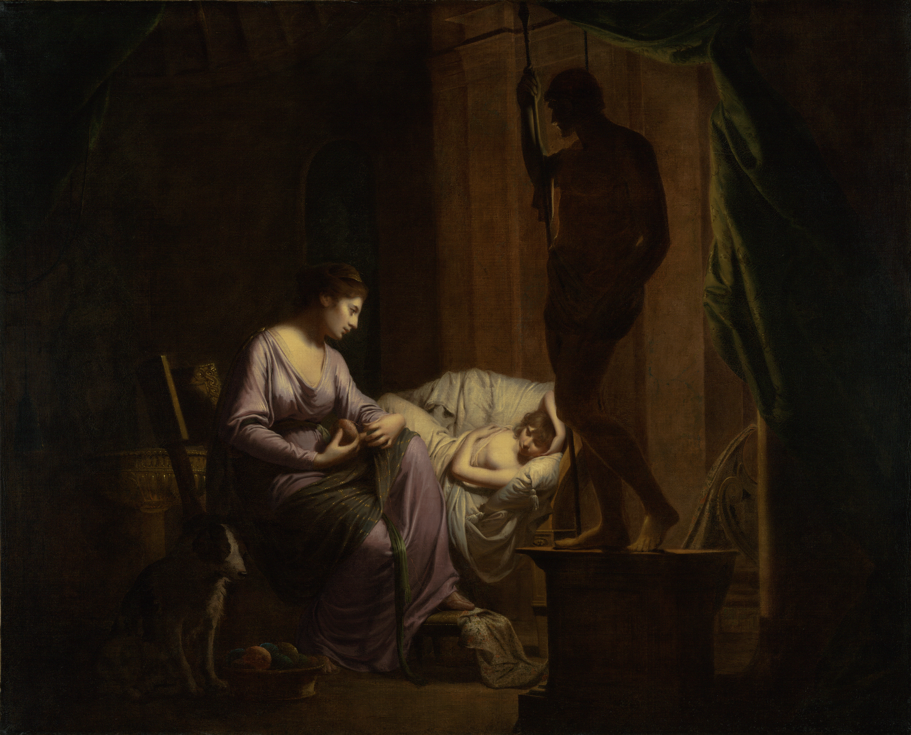 Joseph Wright of Derby. Penelope Unravelling Her Web. exhibited 1785. Oil on canvas. 101.6 x 127 cm., Getty Center